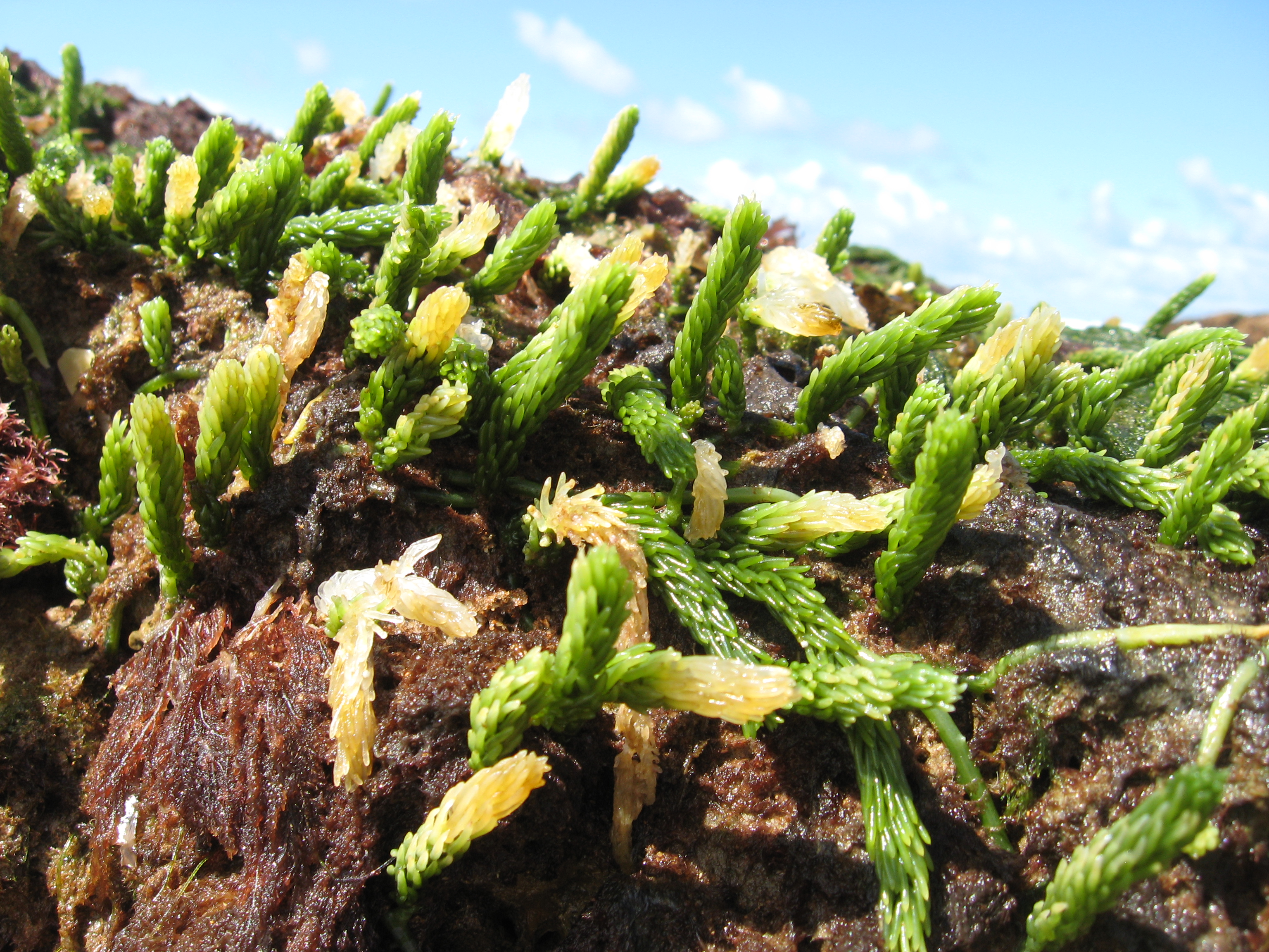 Algae in the lower intertidal zone in rocks at Imabassaí beach, Mata de São João, Bahia, Brazil